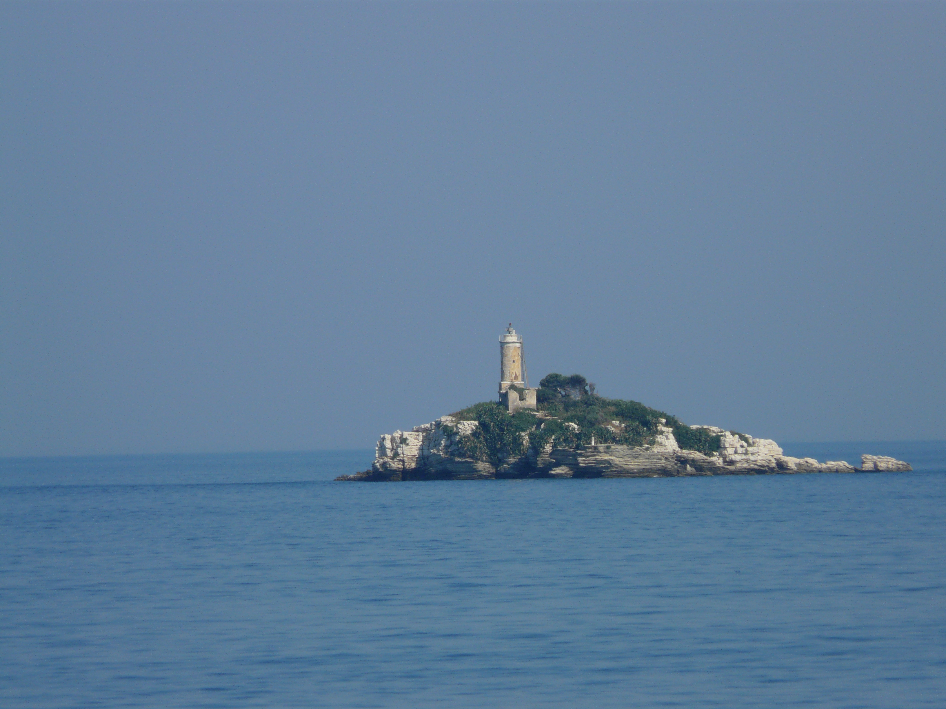 Corfu-Albania trip. Peristeres (Tignoso) lighthouse at the northeastern tip of Kérkyra (Corfu) island (NGA 14392)